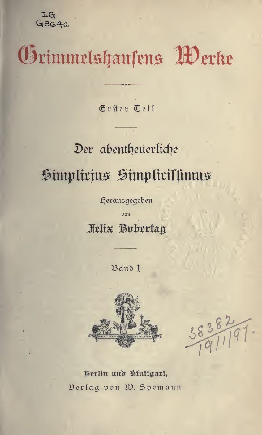 1882 edition of the original 1669 novel, see article on Wikipedia